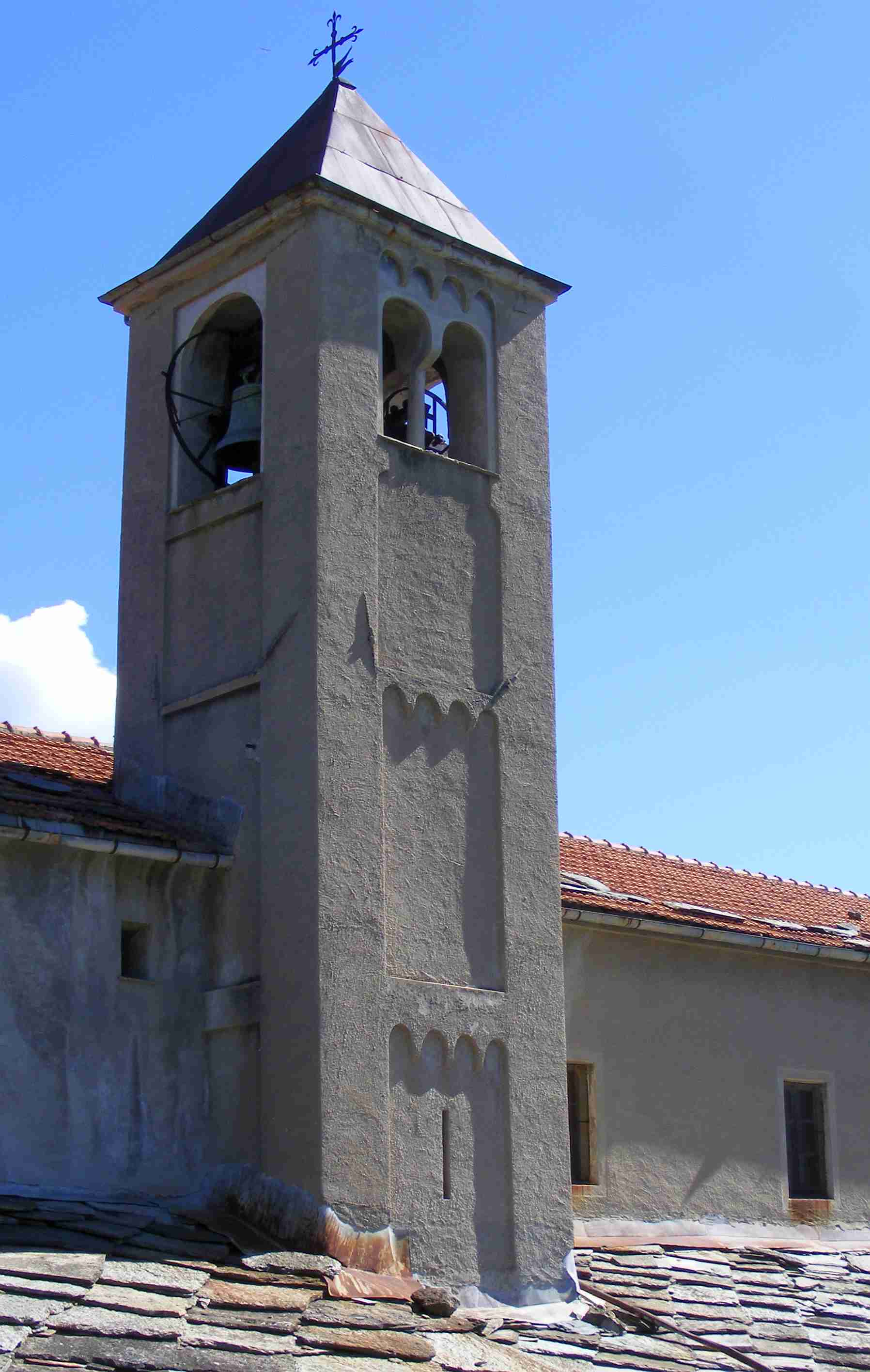 Frassinere (Condove, TO, Italy): roman bell tower